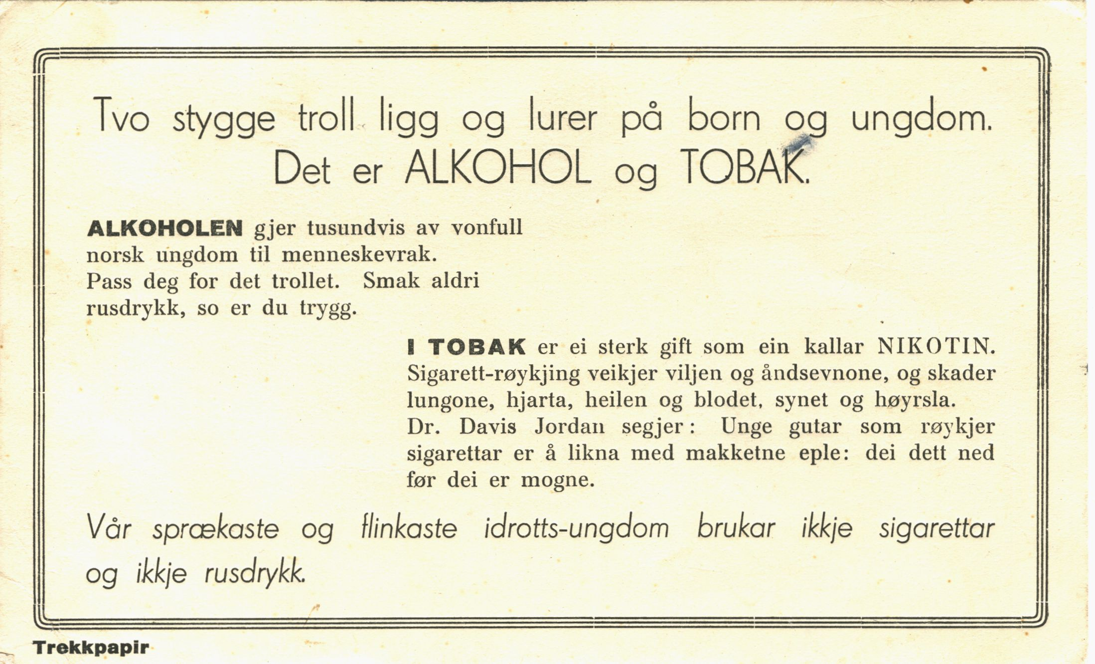 Blotting paper with norwegian text warning about alcohol and tobacco use